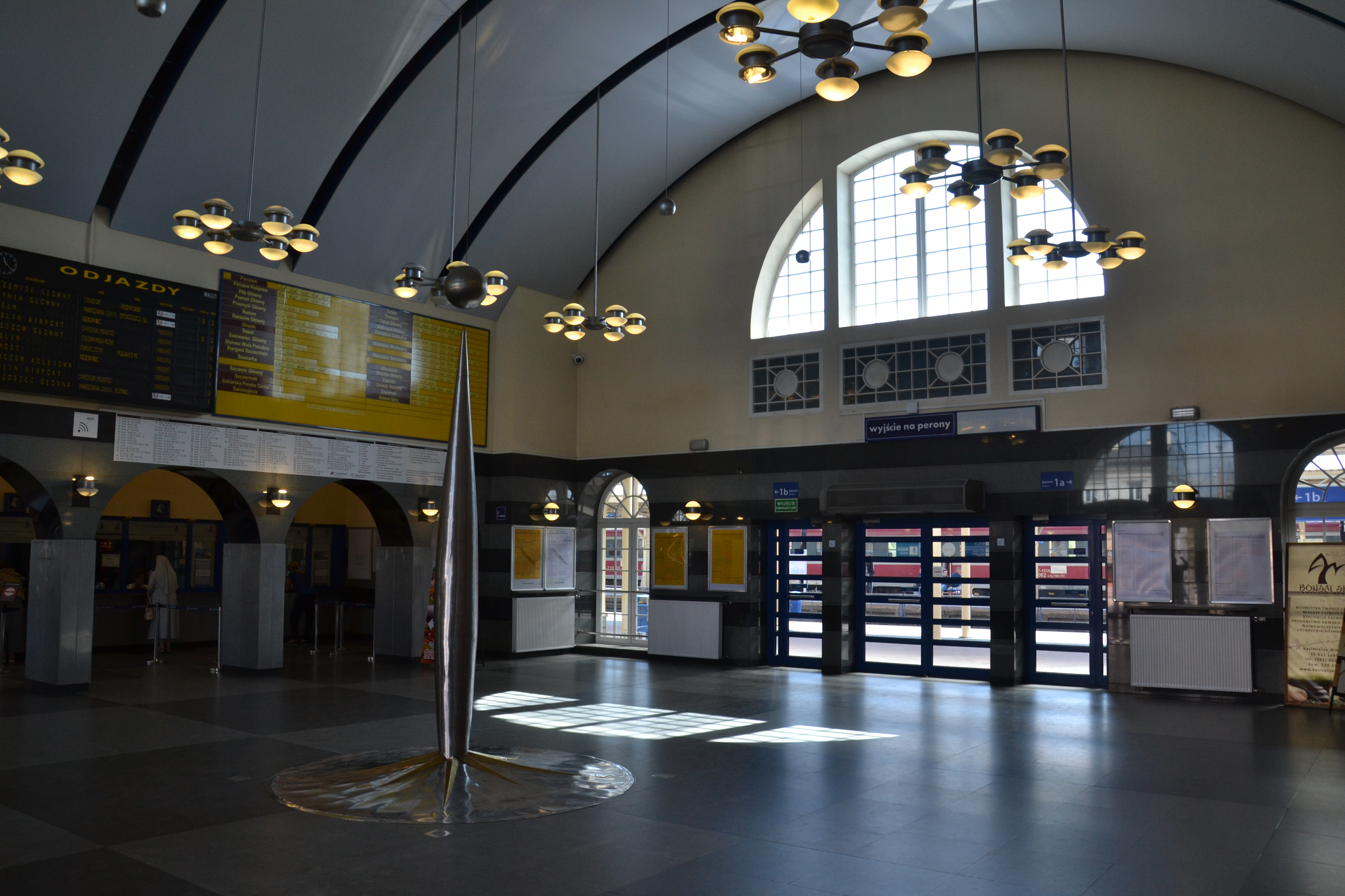 Wnętrze dworca w Lublinie This photo was taken during Railway Wikiexpedition 2015 set up by Wikimedia Polska Association in cooperation with Fundacja Grupy PKP. You can see all photographs in category Wikiekspedycja kolejowa 2015.